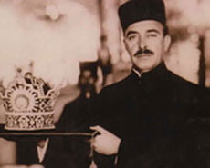 Teymourtash holding the royal crown of the Pahlavi King Reza Khan.